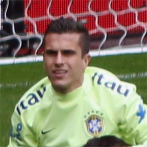 Marcelo Grohe, 2015.